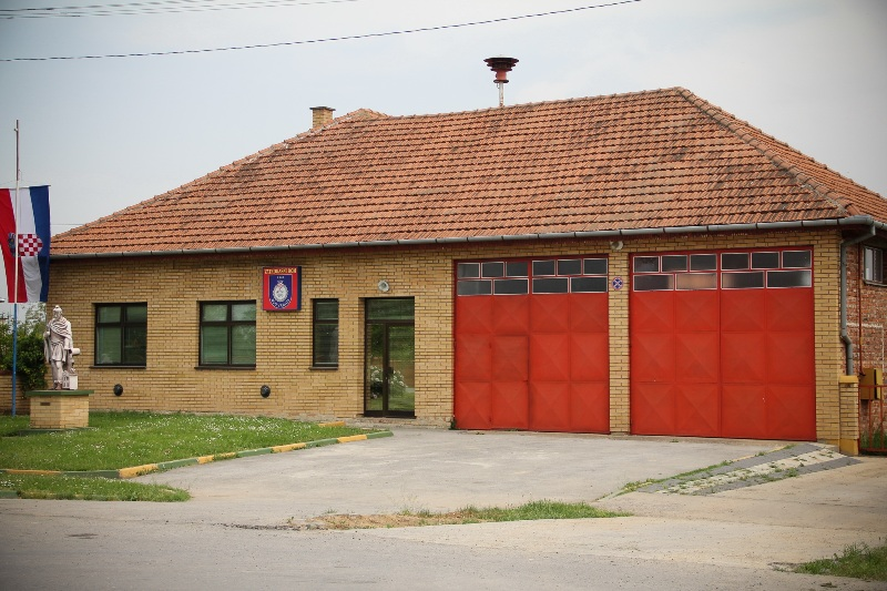 Vatrogasni dom Vrbica